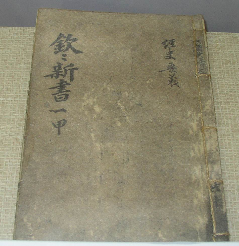 Photo of a book titled "Heumheum simseo" regarding forensics written by a prominent Korean philosopher, Jeong Yak-yong during the late period of the Joseon Dynasty.